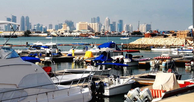 Doha has a beautiful marina which serves many ships of all purposes in the Persian Gulf. Small restaurants and public swimming areas dot the beaches there. Doha’s skyline is a beautiful site and can be seen from quite a distance.